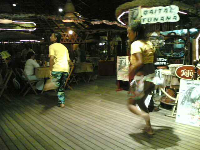 Female funaná dancers, Sal Island, Cape Verde.